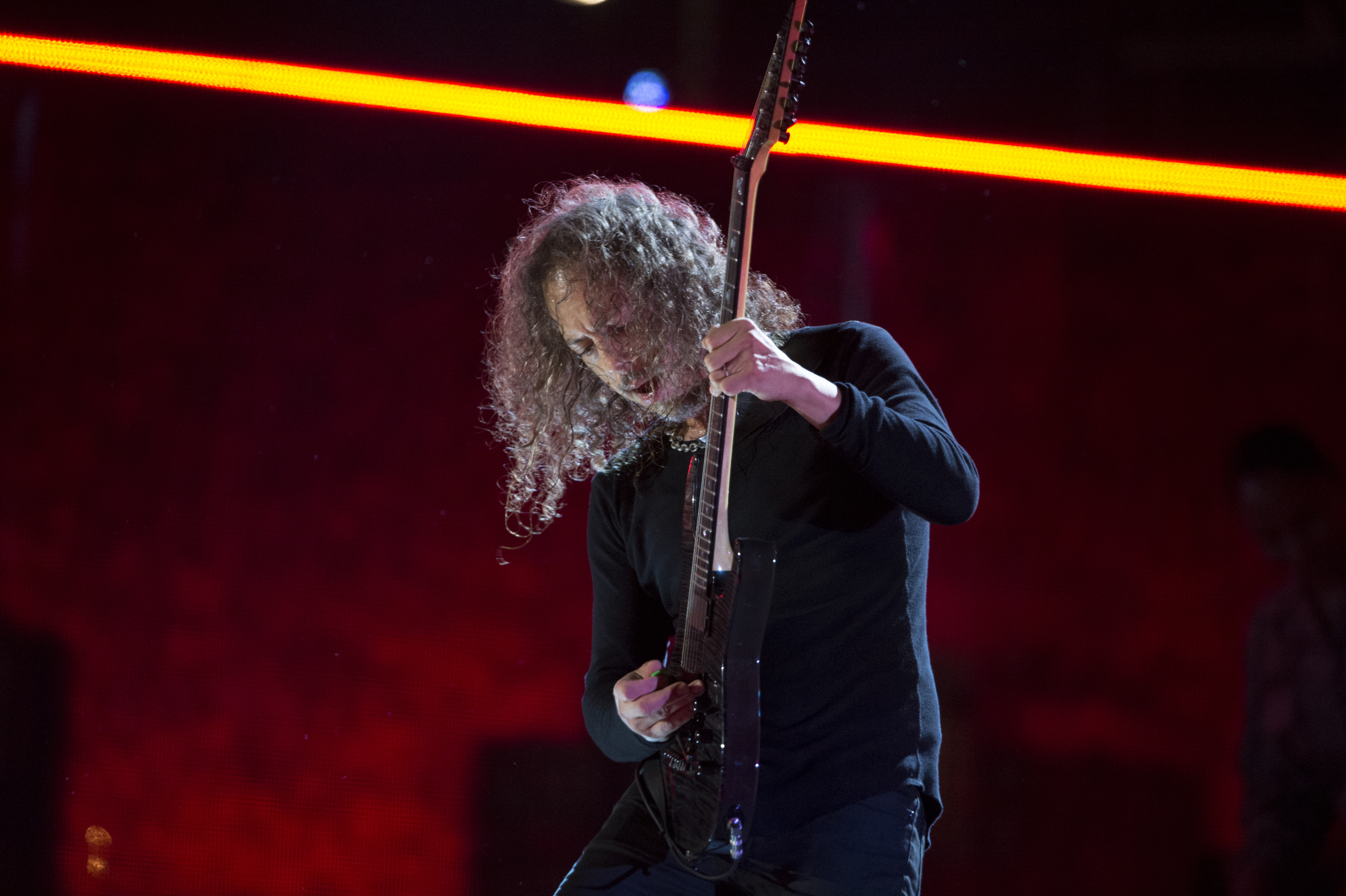 Kirk Hammett, lead guitarist of Metallica, plays a guitar solo during Metallica’s set for The Concert for Valor in Washington, D.C. Nov. 11, 2014. DoD News photo by EJ Hersom